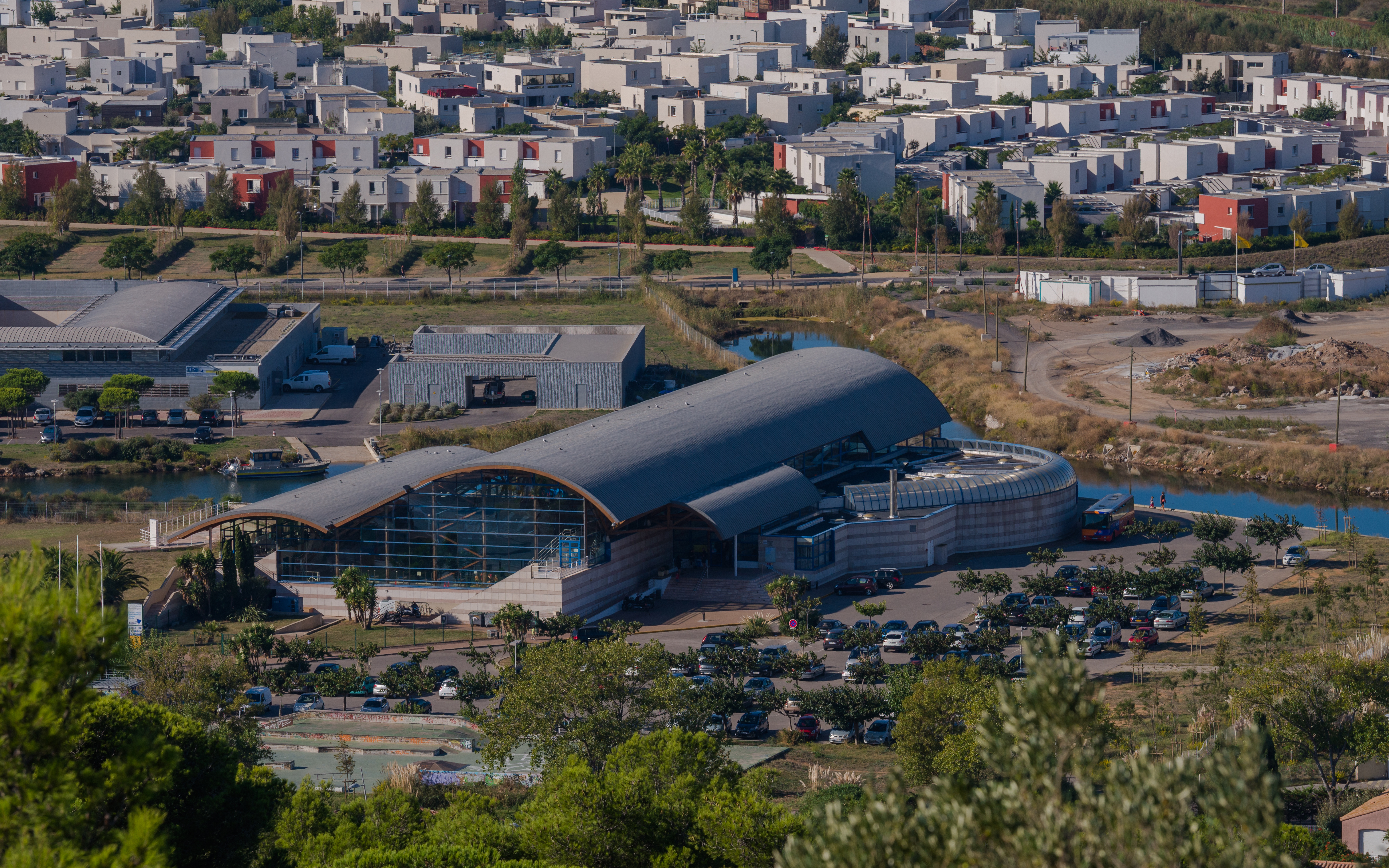 Raoul Fonquerne water-based recreation. Sète, Hérault, France.